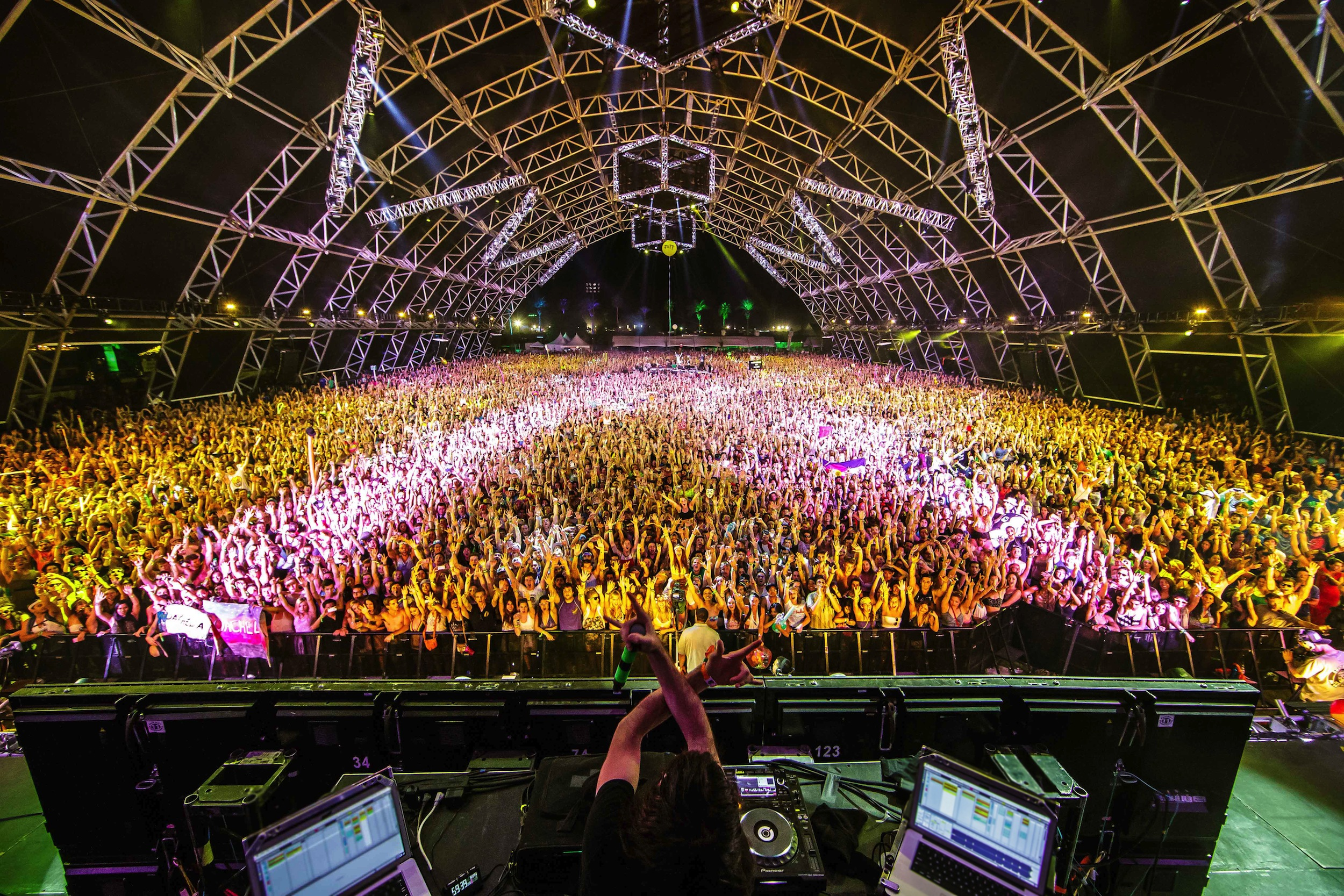 Bassnectar's traditional "family photo" taken at the Coachella Music and Arts Festival 2013.